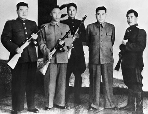 DPRK 2nd Head Choi Yond-kun and 3rd Head Kim Il-Sung, General Kim Chaek, Kim Il, Kang Gun